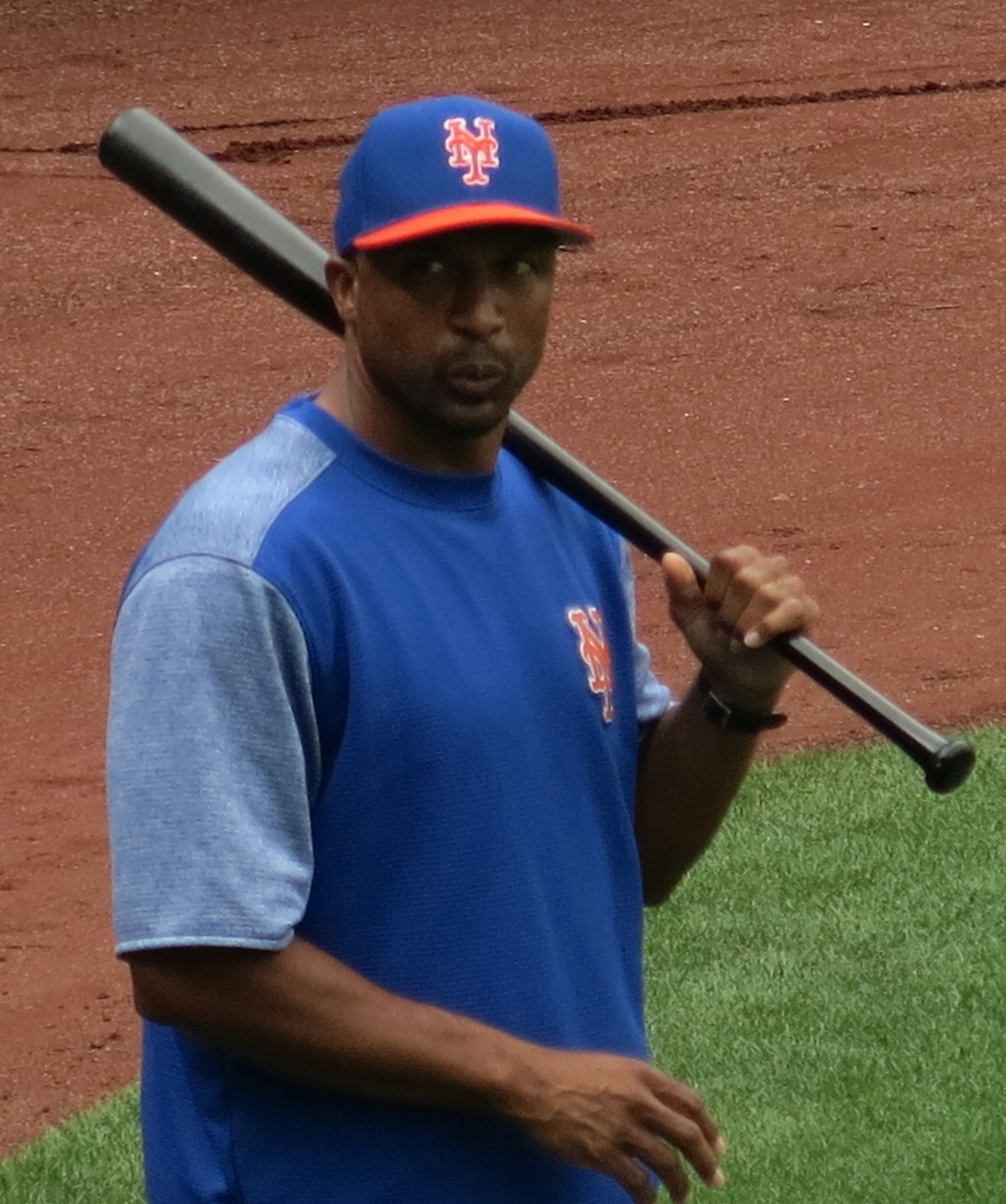 Tom Goodwin on July 15, 2017